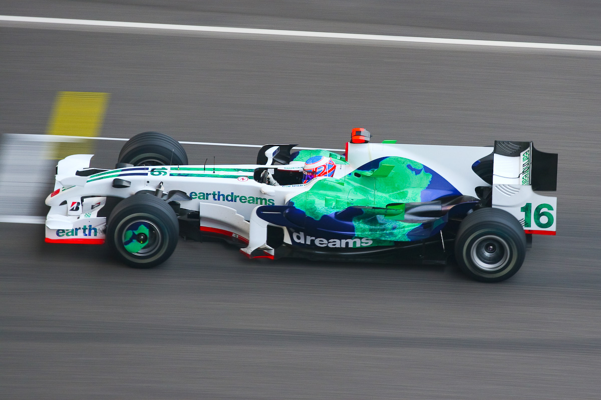 Jenson Button driving for Honda F1 at the 2008 Chinese Grand Prix.